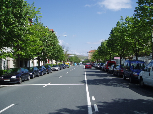 Navarre avenue (N-634 road) of Zarautz (Gipuzkoa).